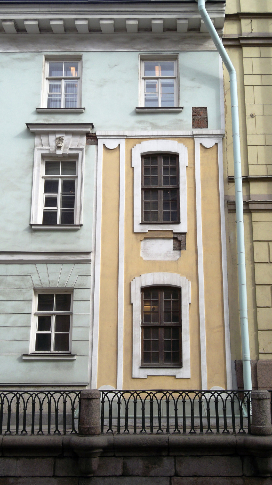 Peter I's Winter House. 1716 Musefication fragment of the facade of the palace of Peter the Great in the building of the Hermitage Theater